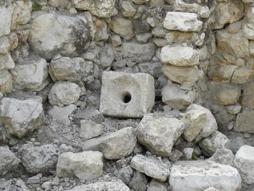 Stone toilet found in 8th century BCE house built on the "stepped-stone structure" on the Eastern slope of the City of David.